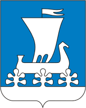 Kirishi (Leningrad oblast), coat of arms (1997)